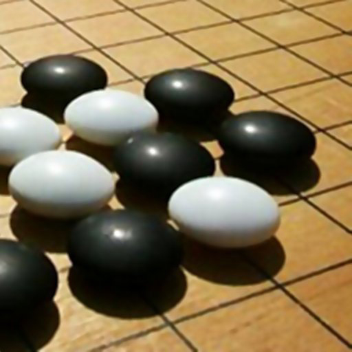 Go (igo) board with stones